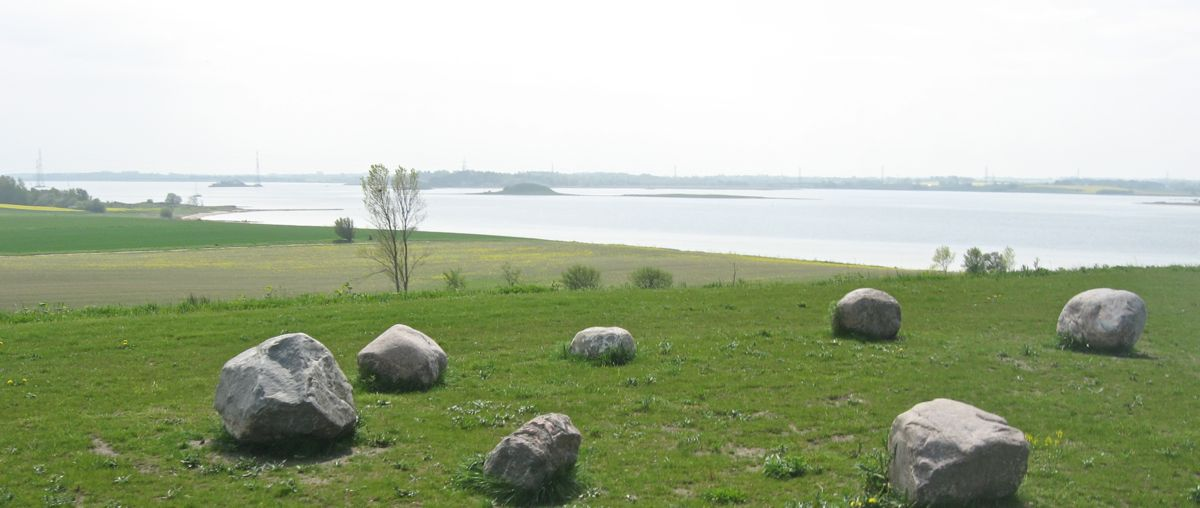 View over Roskilde Fjord from Ørnestensbjerget